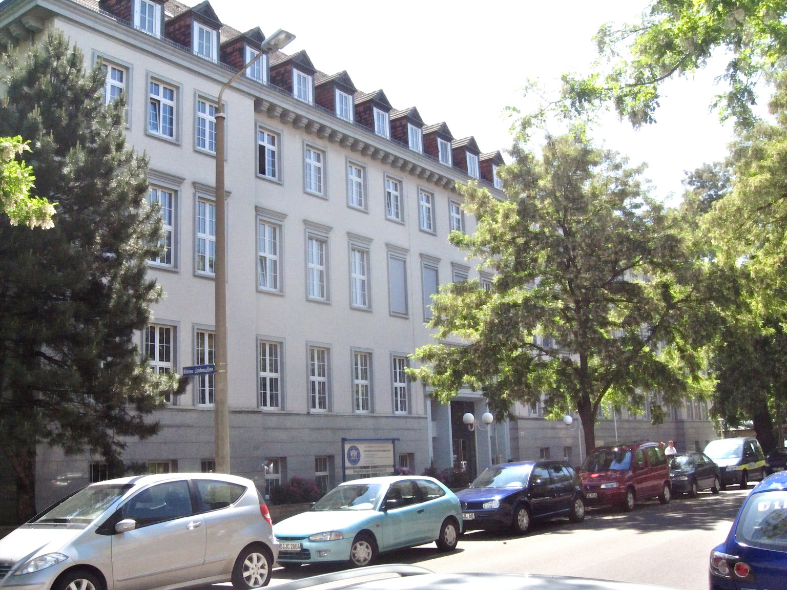 Clinic for Gynaecology and Obstetrics of the Otto-von-Guericke-University Magdeburg (former Landesfrauenklinik)